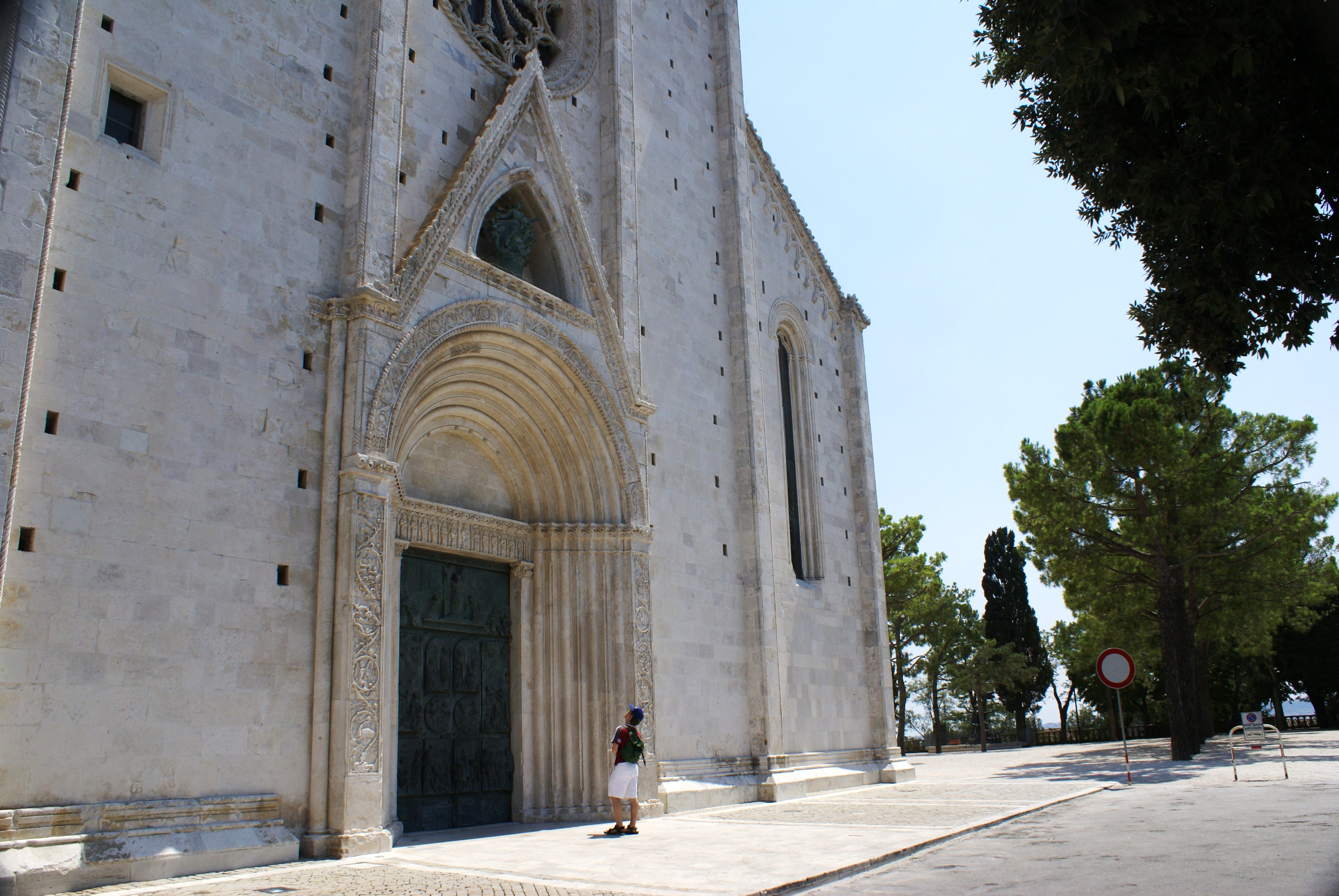 The cathedral of Fermo in the Marche Region of Italy.